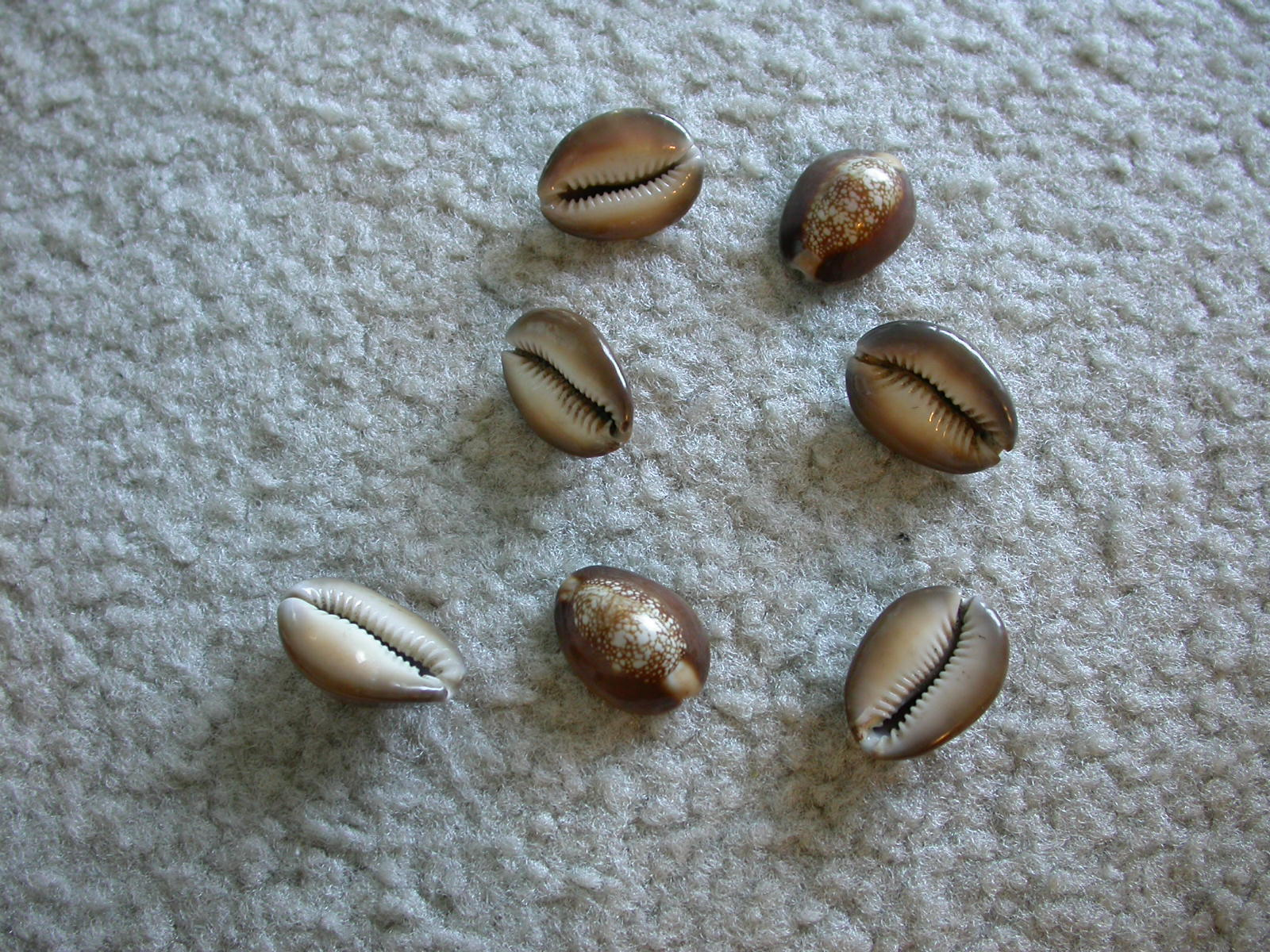 Indian Game of Chopat uses Cowry Shells as Dice